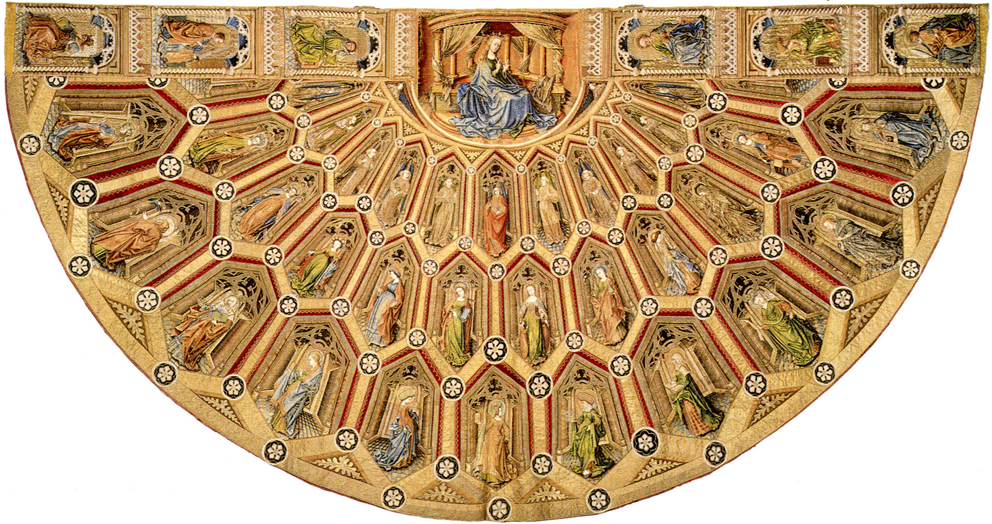 The Liturgical Vestments of the Order of the Golden Fleece The Cope of the Virgin Mary Hood: the Virgin as intercessor; concentric rows of chapels: heavenly choirs of angels, holy virgins, women and widows Gold and silver thread in appliqué technique, embroidery with silk and pearls Creation: Between 1433 and 1442 Robert Campin designed three embroidered copes commissioned by Philip the Good. “These copes were probably produced in the workshop of Thierry du Chastel, an embroider who originally came from Paris. The vestment, worn at the prayer services of the order of the Golden Fleece, may be regarded as an artistic response to the Ghent Altarpiece by the van Eyck brothers, completed in 1432. (Thürleman,Felix. Robert Campin, A monographic study with a critical catalogue, 2002. Prestel) W: 330 cm, L: 164 cm KK Inv. No. 21